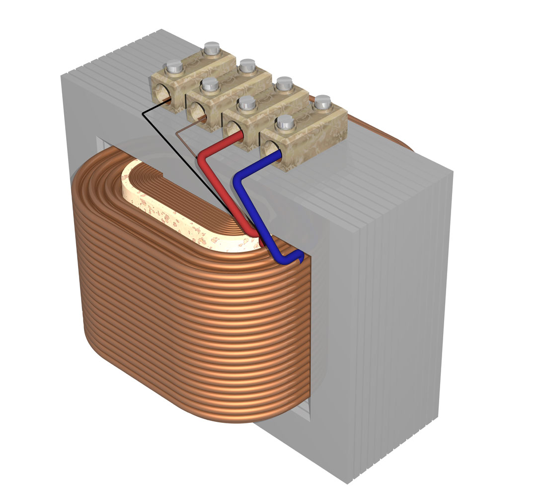 A step-dfgdown transformer, originally created by Mtodorov 69. Scaled down and cropped slightly for a more manageable file size.